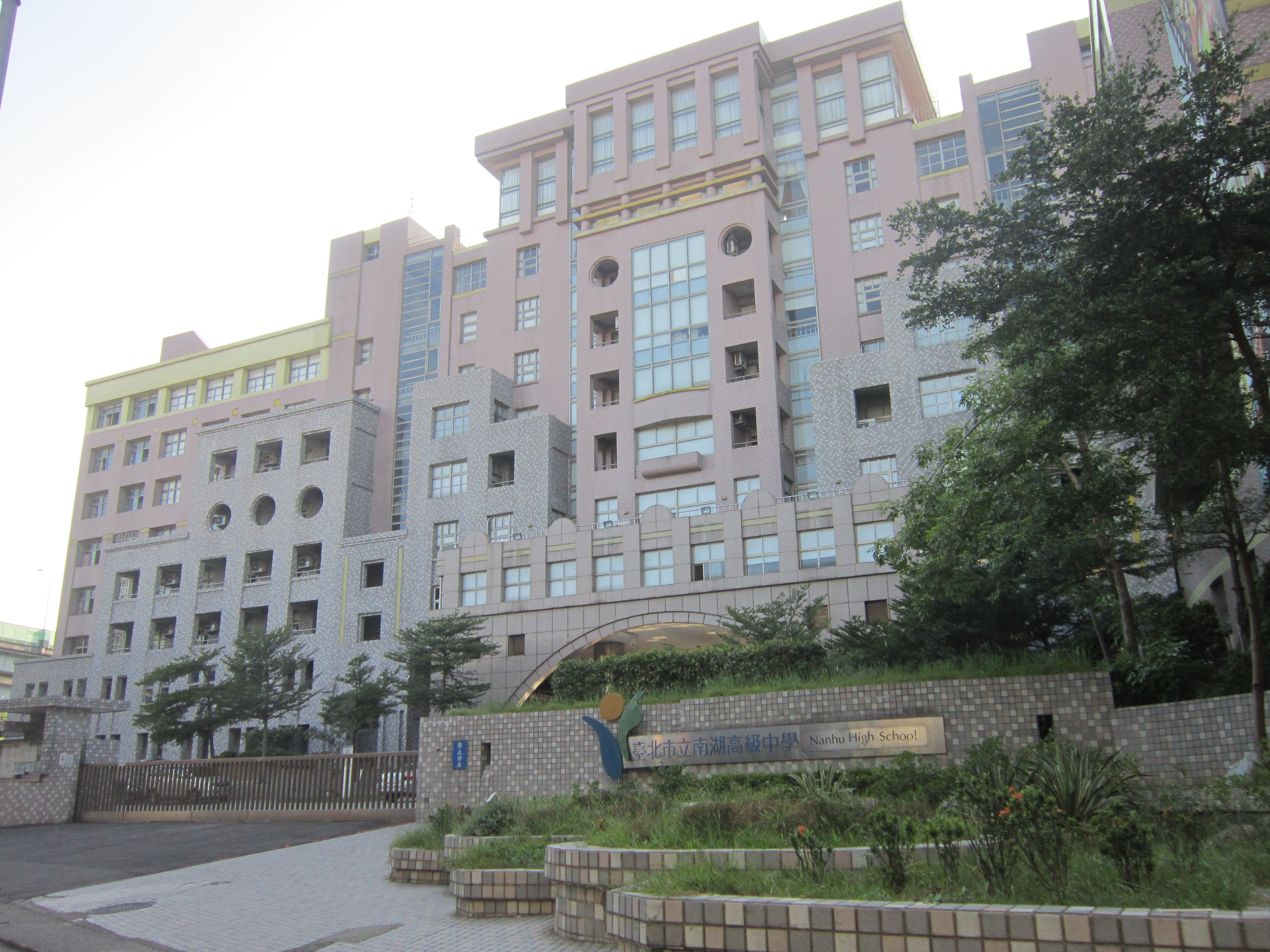 Nanhu Senior High School